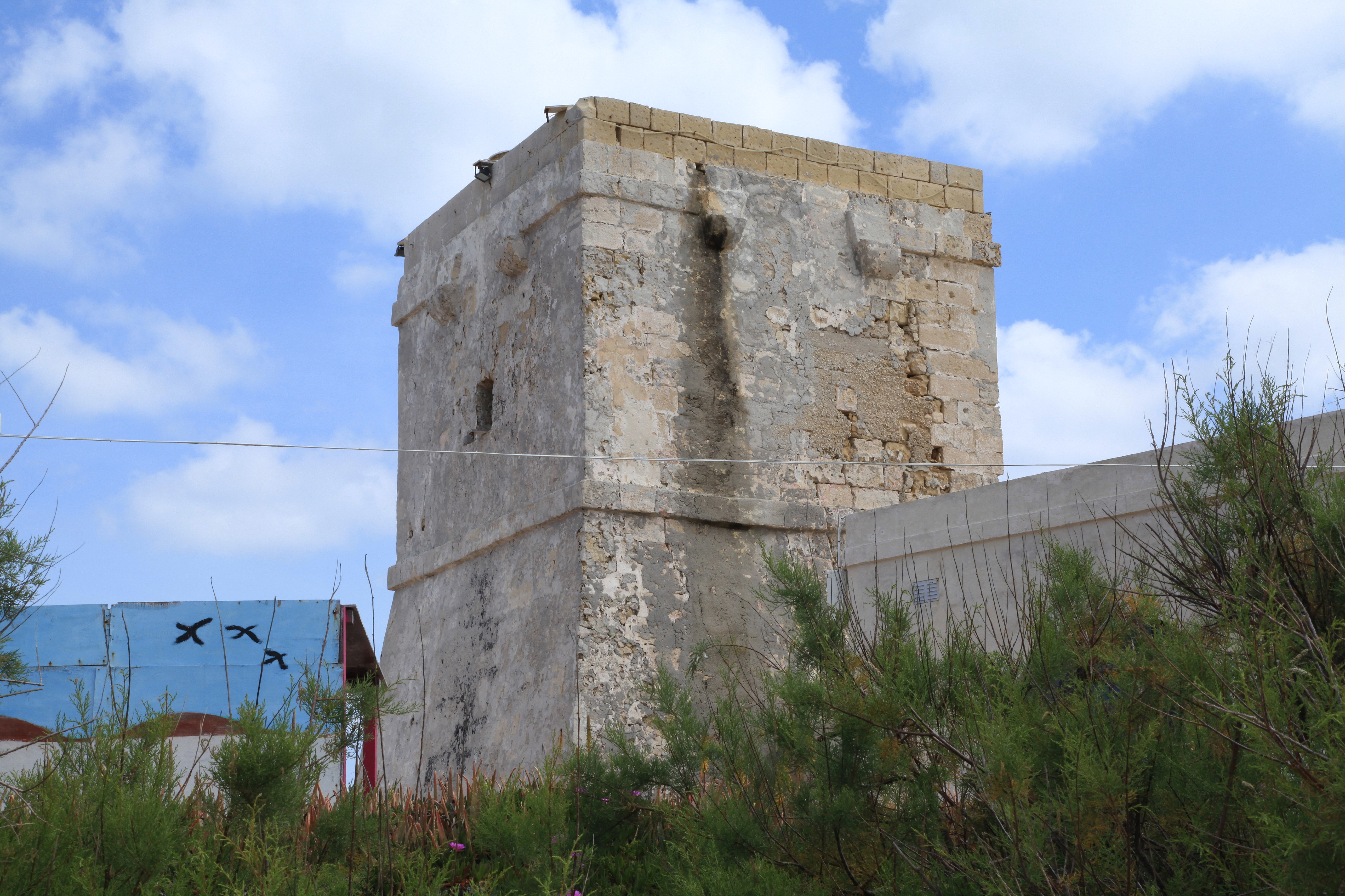 Qawra Tower at Ras il-Qawra, Triq it-Trunciera in St. Paul's Bay, Malta